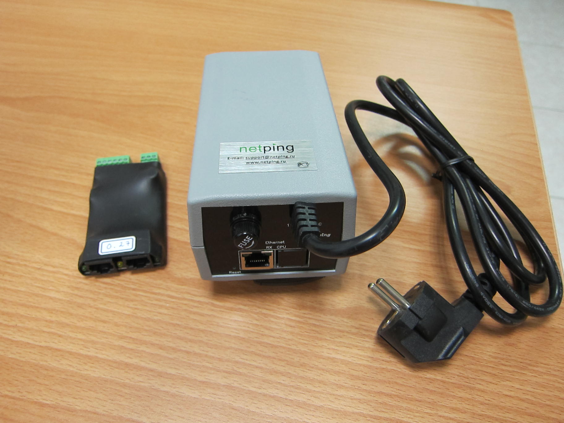 Remote power management device Netping 2PWR220v3 Remote sensors monioring device Netping IO2